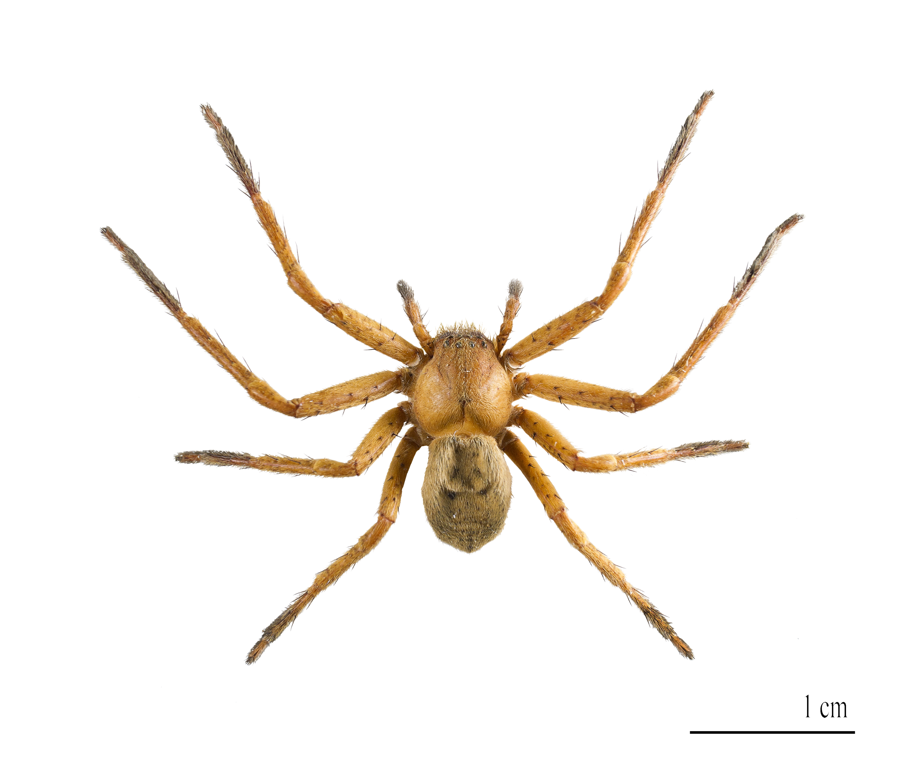 Male specimen Locality: Verfeil, Haute-Garonne, France.